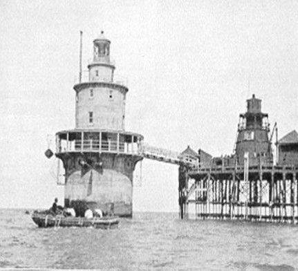 Brandywine Shoal Light Station, Delaware Bay off Cape May, New Jersey. Undated USCG photo.